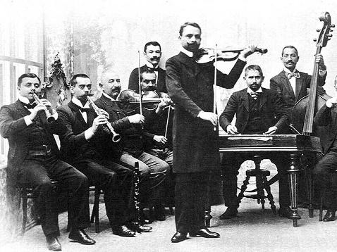 Gypsy band from Kolozsvár